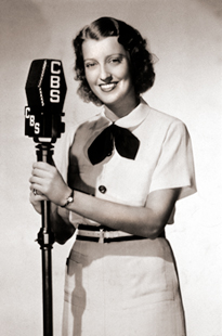 Studio promotional photograph of actress Jeanette MacDonald standing with a CBS Radio microphone to promote her short-lived radio show Vick's Open House (1937)